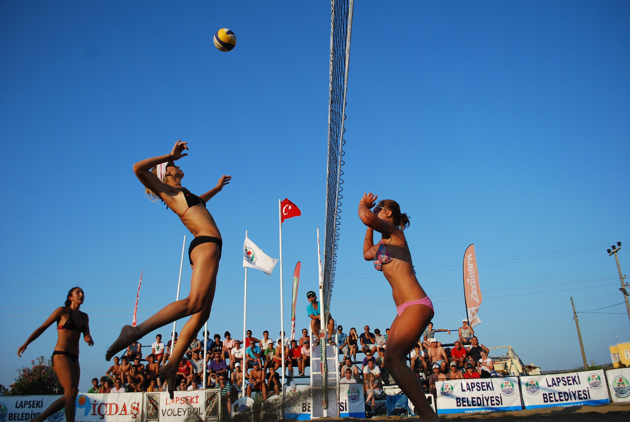 Plaj Voleybolu